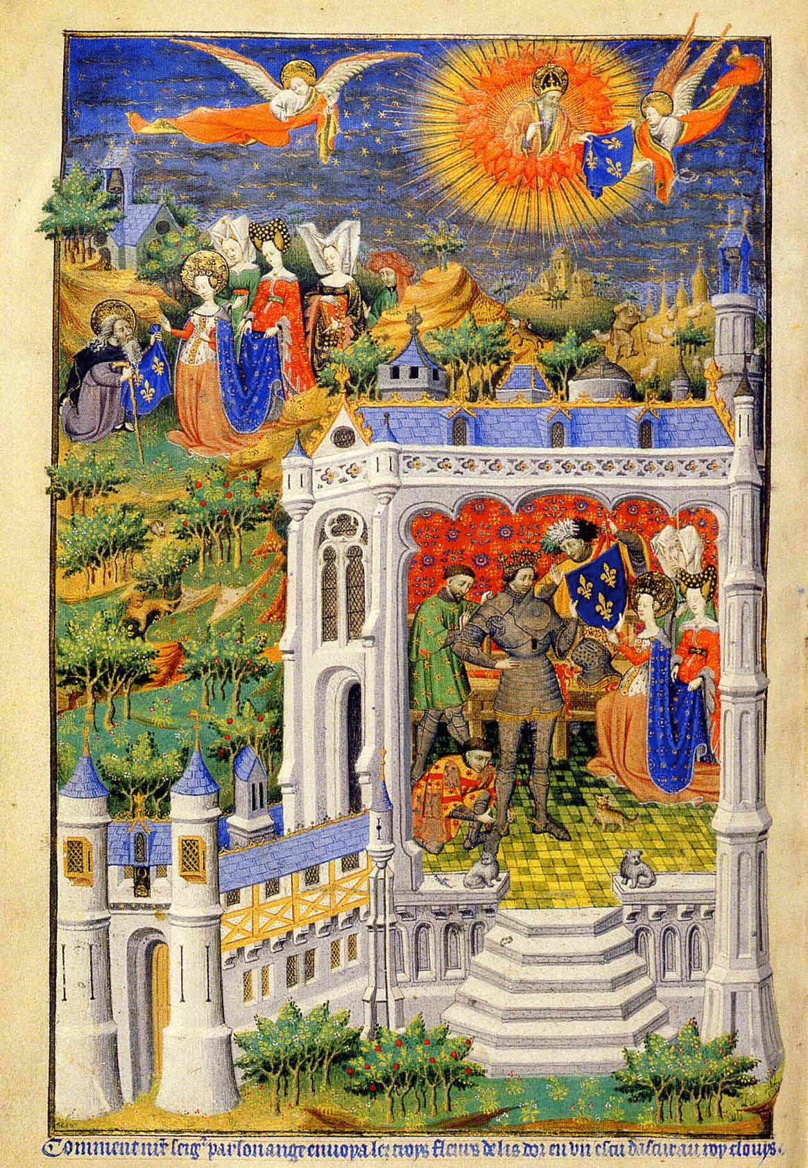 Miniature of the legend of the fleur-de-lis and its presentation to King Clovis; from BL Add MS 18850, f. 288v (the "Bedford Hours"). Held and digitised by the British Library.